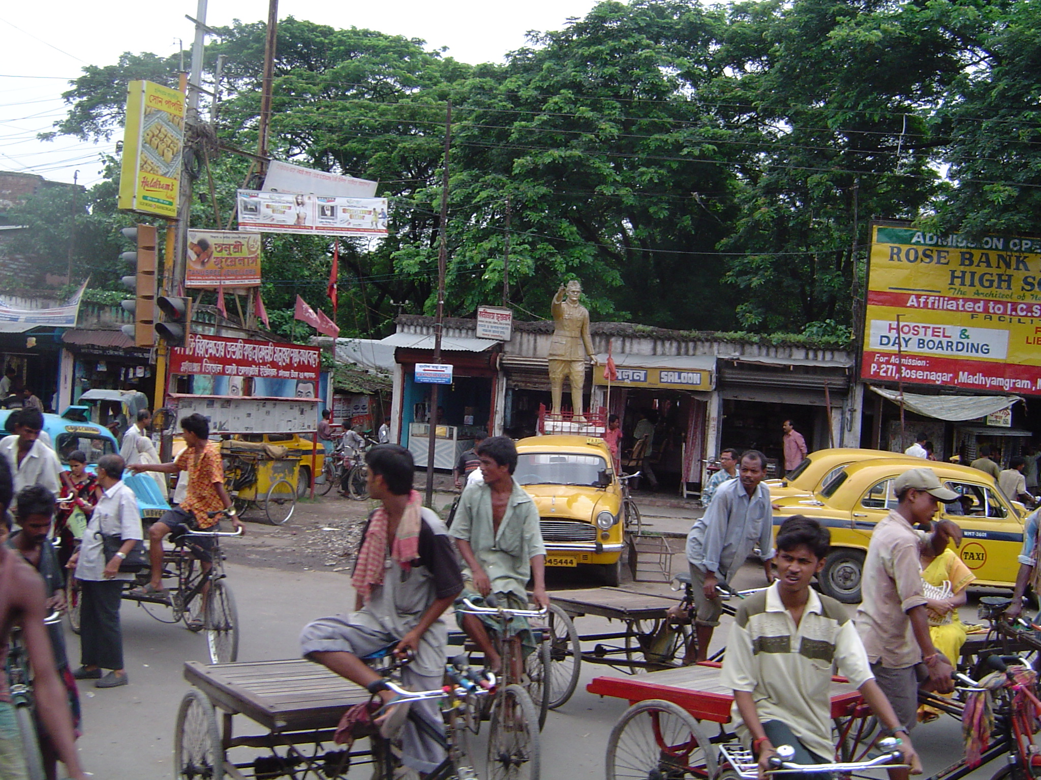 Vehicles in the Madhyamgram Chowmatha (four-way crossing), including "cycle-van"s